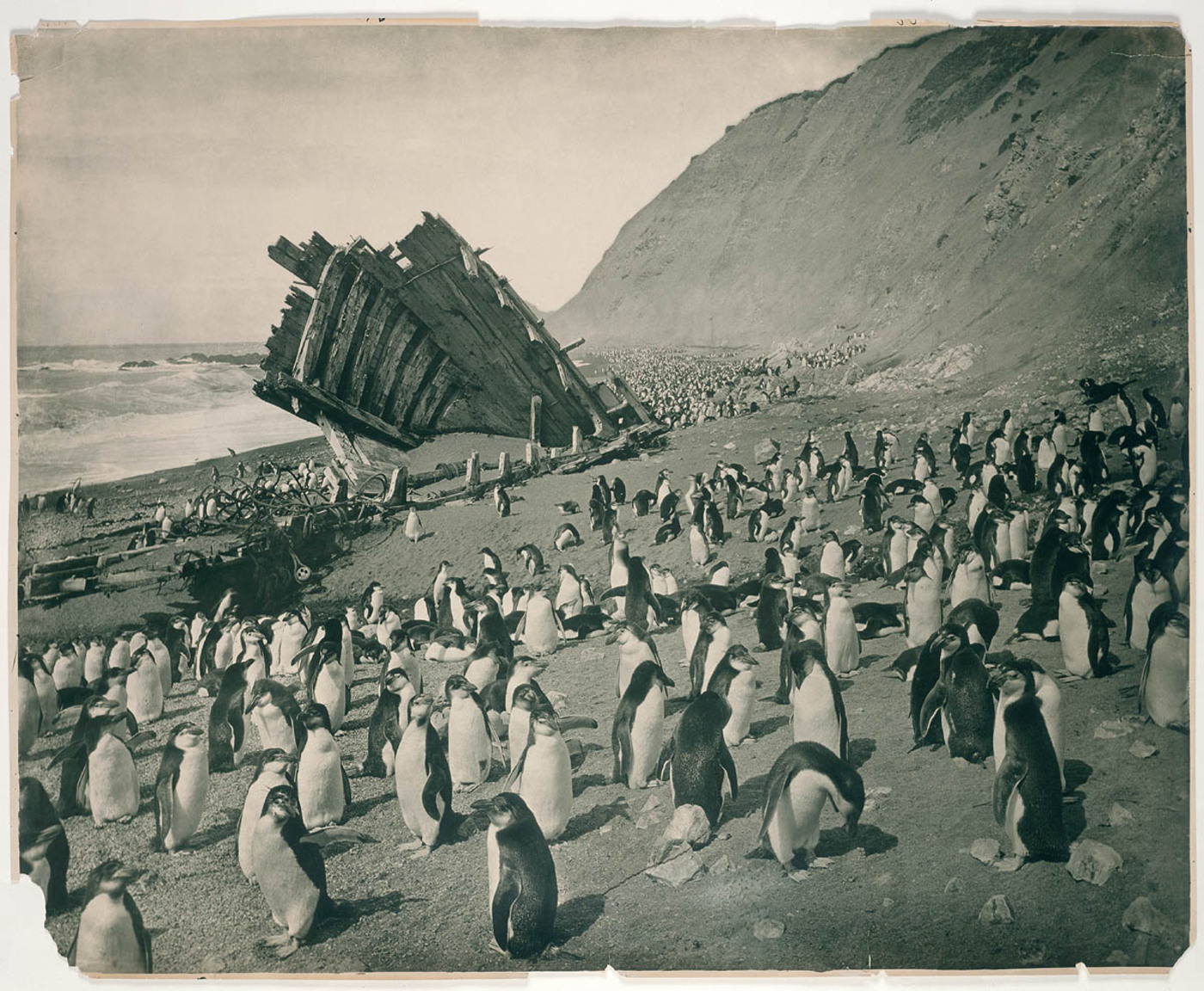 Format: Silver gelatin photoprint Notes: First Australasian Antarctic Expedition, 1911-1914 Frank Hurley visited the Antarctic six times between 1911 and 1932. For more information and pictures, visit Discover Collections: Hurley's Antarctica on the State Library of NSW's website: From the collections of the Mitchell Library, State Library of New South Wales Information about photographic collections of the State Library of New South Wales .au/search/SimpleSearch.aspx Persistent url: .au/album/albumView.aspx?acmsID=17845&...